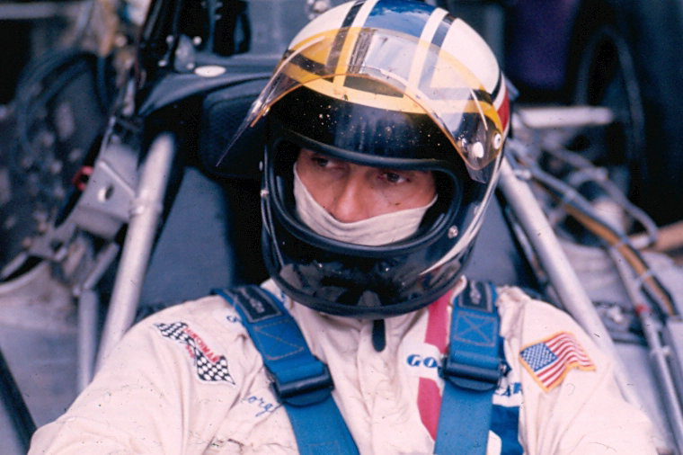 This photograph of George Follmer was taken in 1973 at Nürburgring during practice for the German Grand Prix (Formula 1).